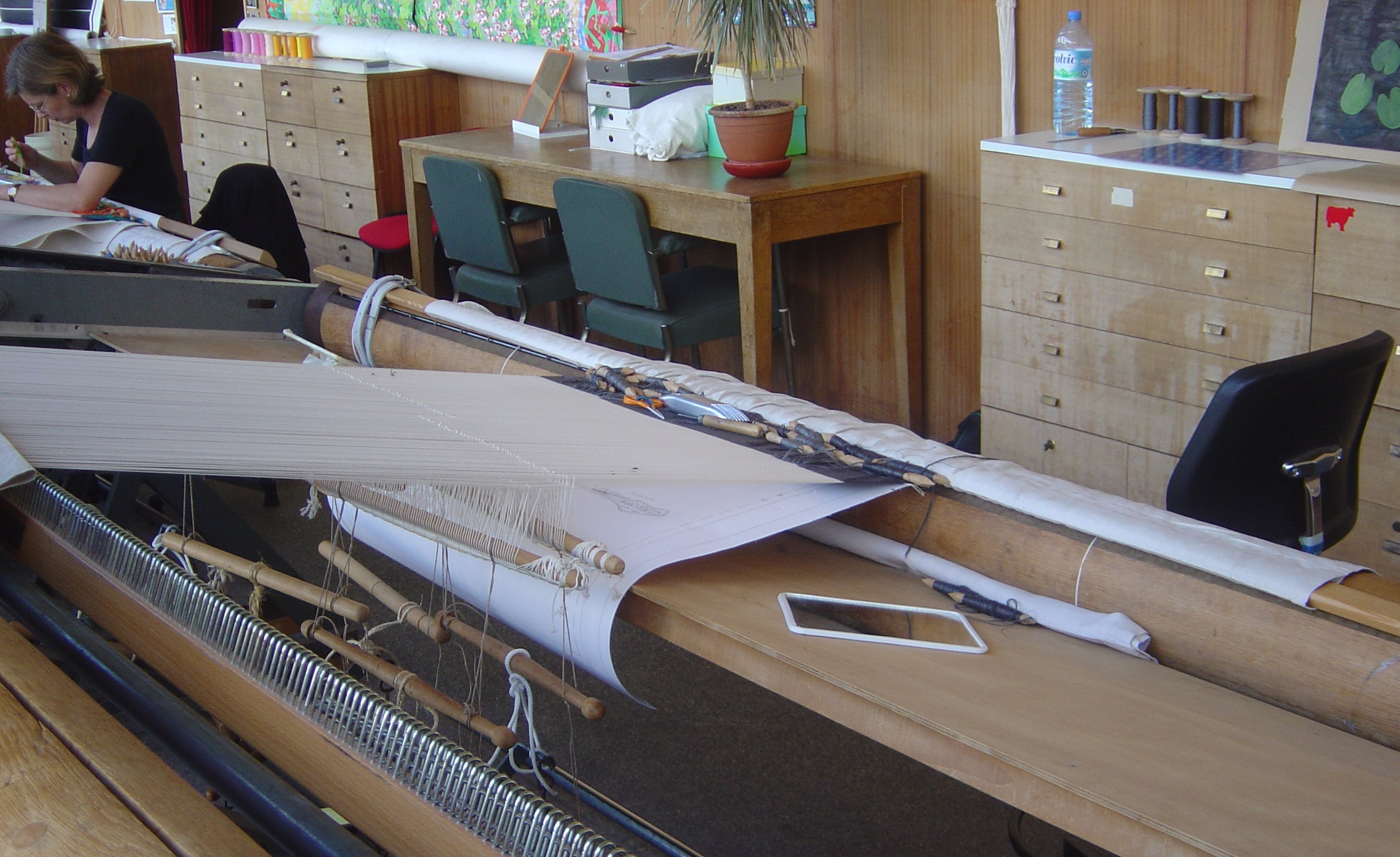 Basse lisse weaving loom at the Gobelins tapestry manufacture